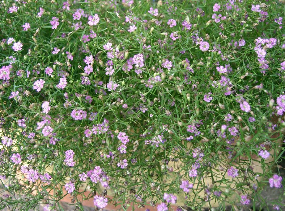 Gypsophila muralis 'Gypsy Rose'